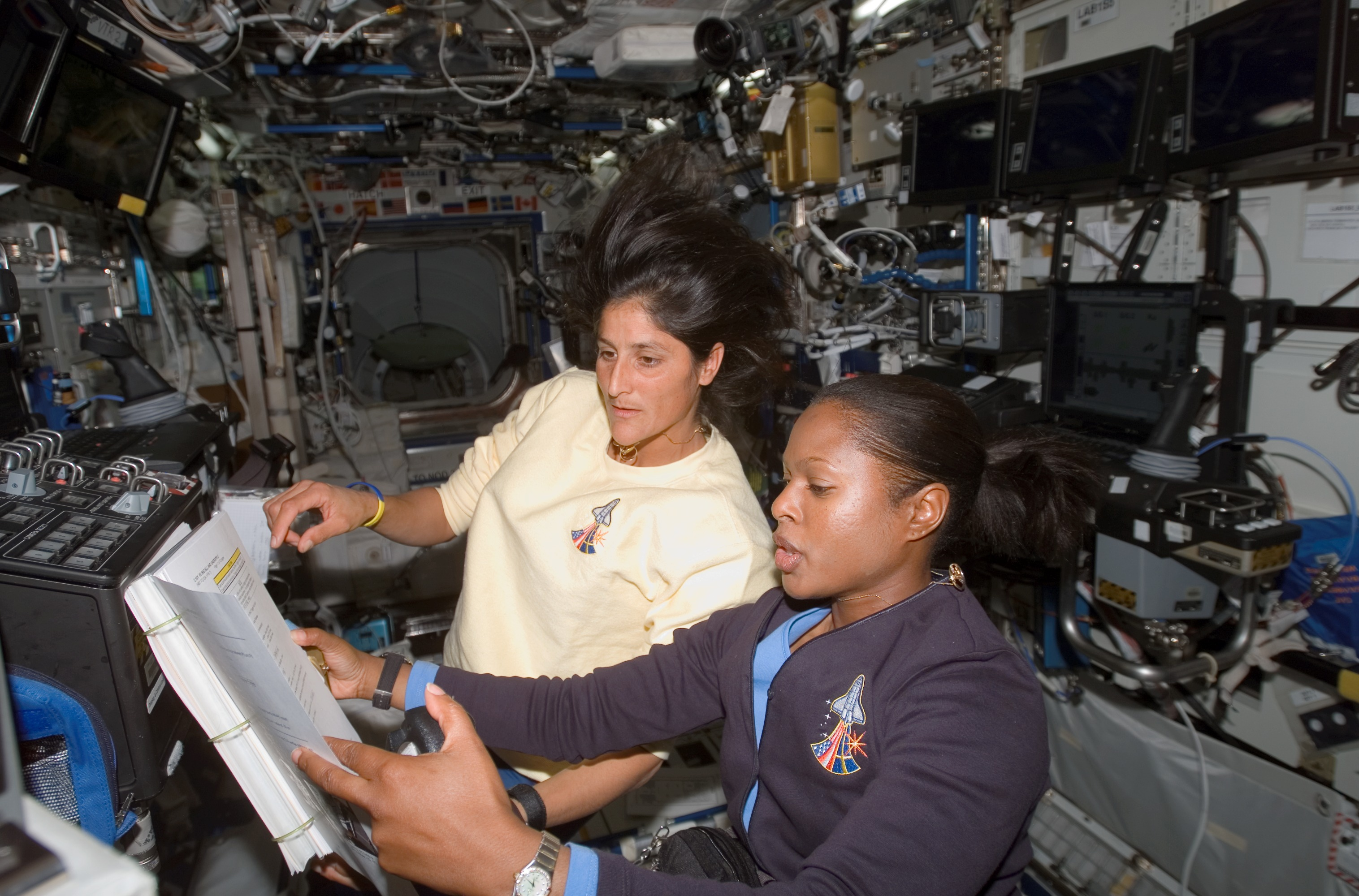 Astronauts Joan E. Higginbotham (foreground), STS-116 mission specialist, and Sunita L. Williams, Expedition 14 flight engineer, refer to a procedures checklist as they work the controls of the Space Station Remote Manipulator System (SSRMS) or Canadarm2 in the Destiny laboratory of the International Space Station during flight day four activities.